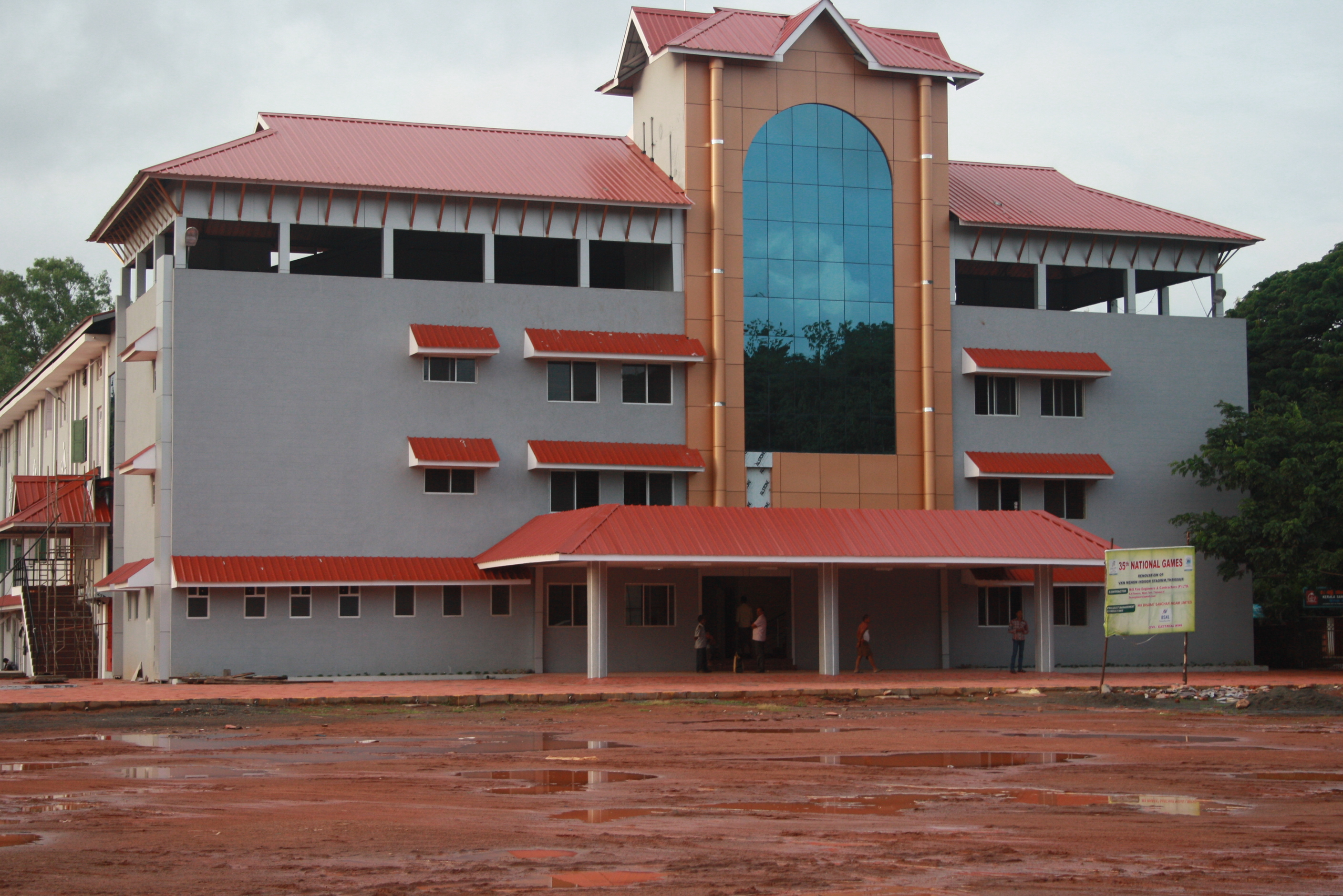 A view of V.K.N. Menon Indoor Stadium in Thrissur city on September 7, 2013